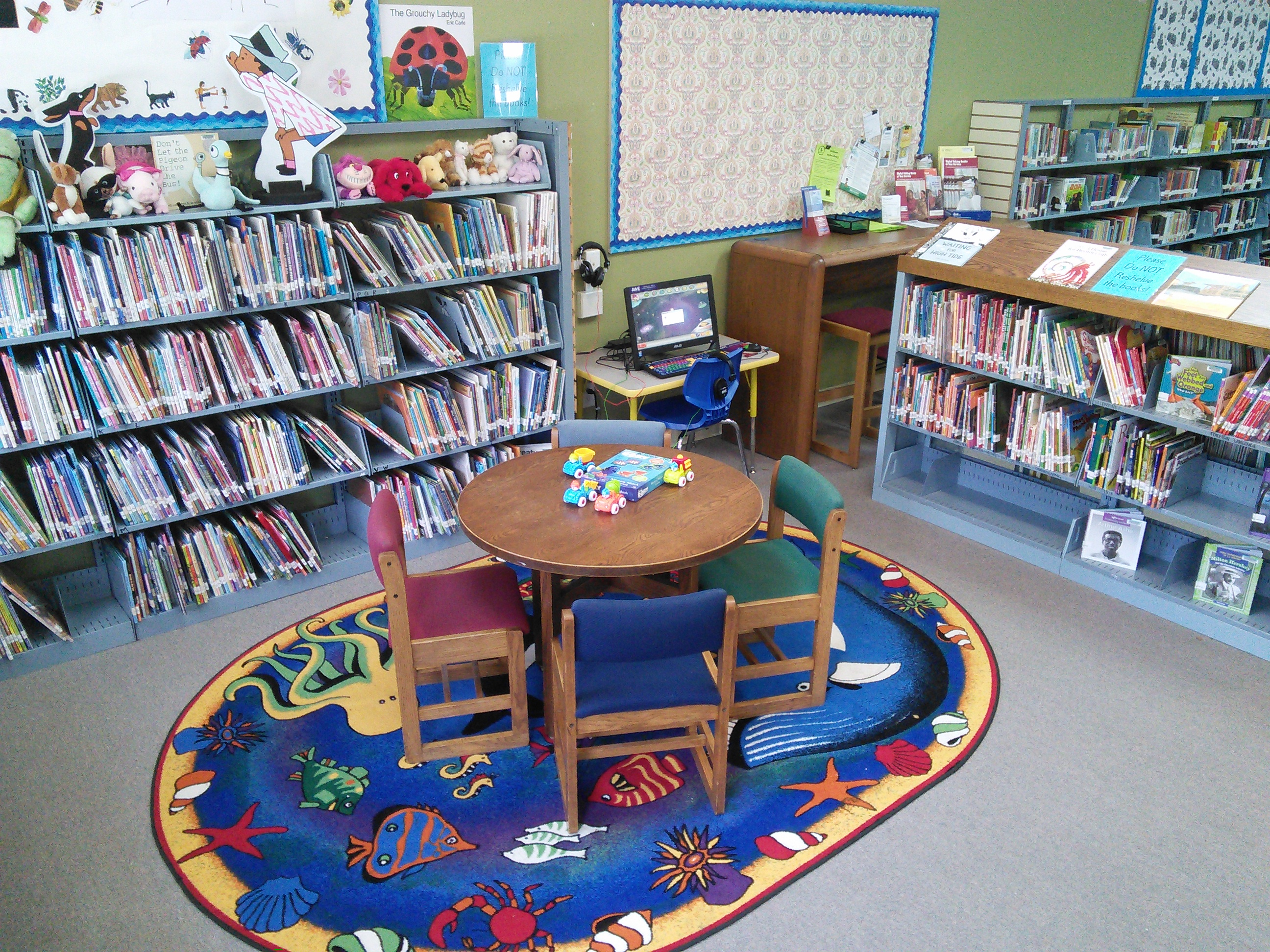 View of the Children's area of the Lake Sinclair Library